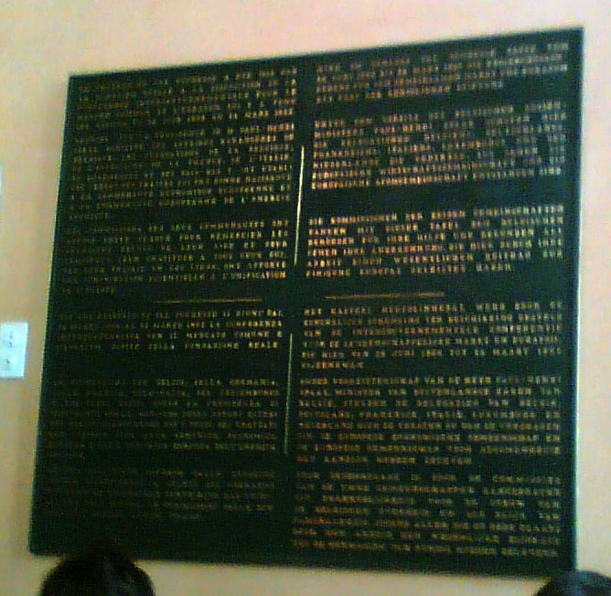 Plaque on wall of the Château de Val Duchesse commemorating the Intergovernmental Conference on the Common Market and Euratom, in four languages